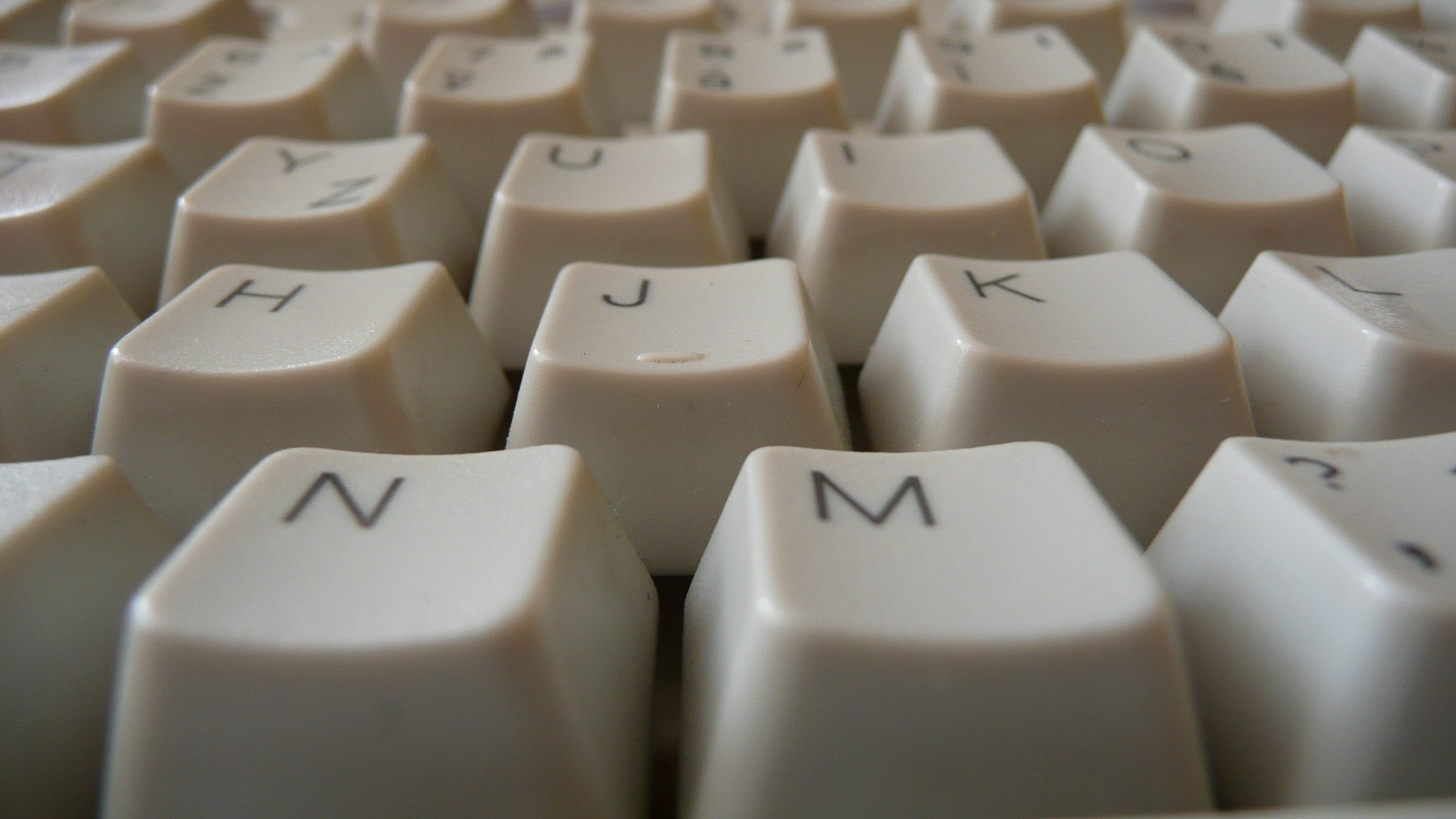 Computer keyboard, view from down